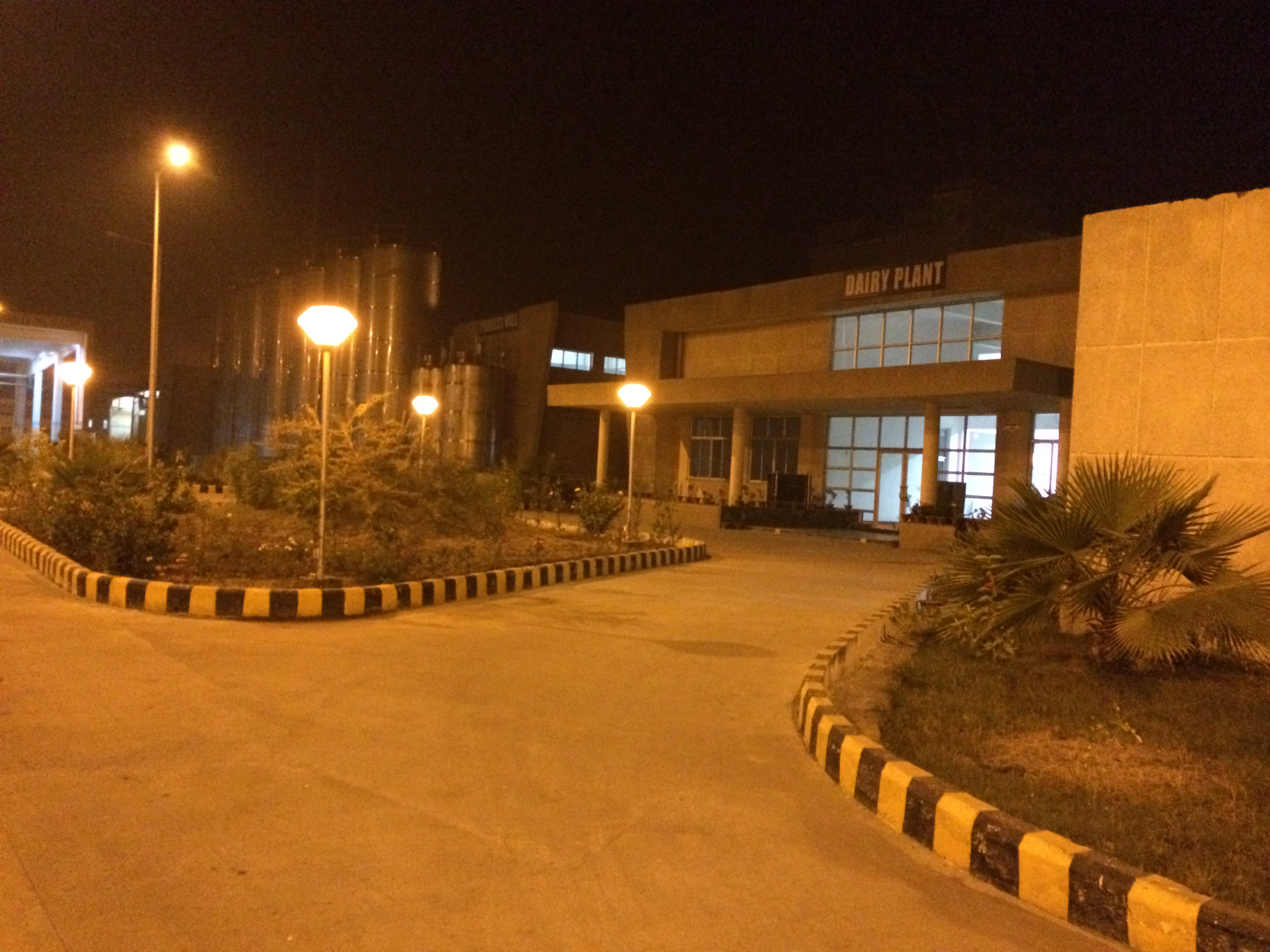 entry gate of nalanda dairy milk processing plant unit